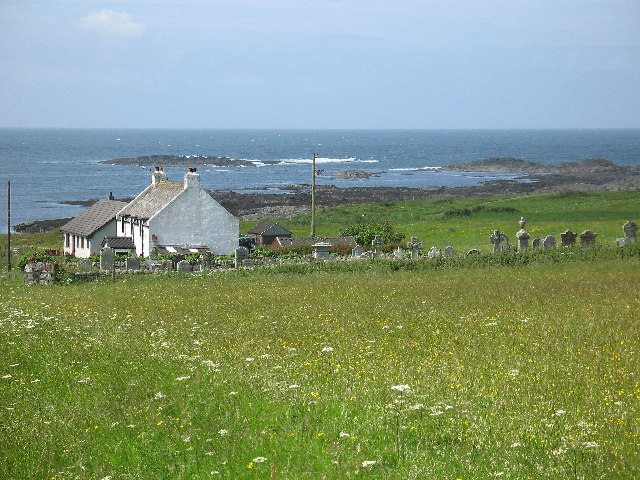 Burial Ground, Kilchattan, Colonsay. Beyond the graveyard is the headland of An Rubha, and beyond that- Canada!